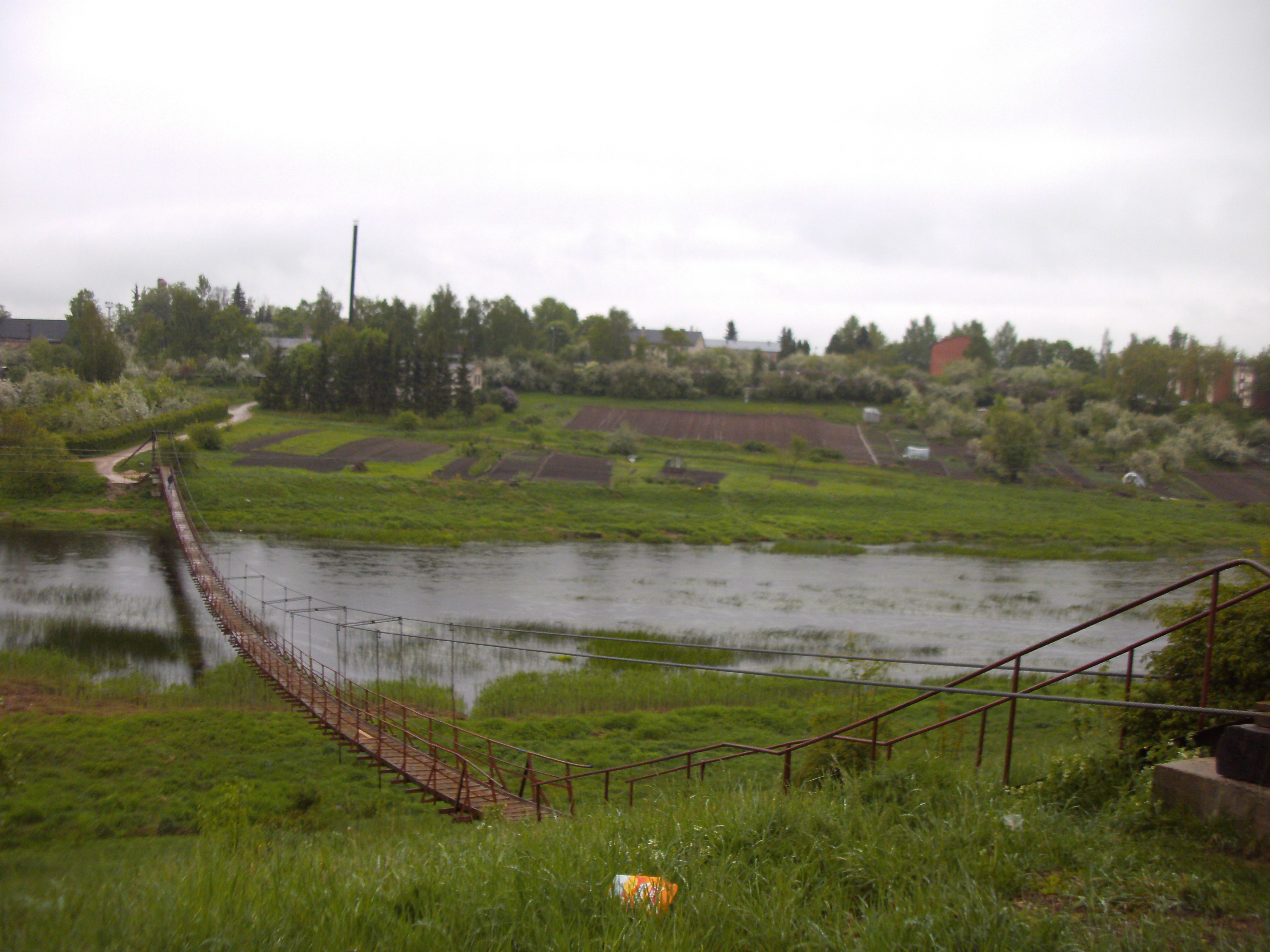 Bridge over the Musa river in Bauska, Latvia